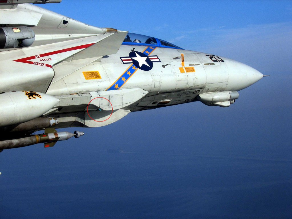 An F-14 Tomcat of VF-213 deployed with the carrier USS Theodore Roosevelt flies with a new data transfer system installed to its underside. (U.S. Navy photo) (Modified to add circle around the small blue transmit antenna)